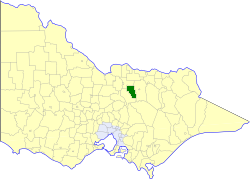 Location of the Shire of Violet Town within Victoria.